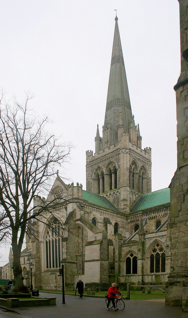 Chichester Cathedral